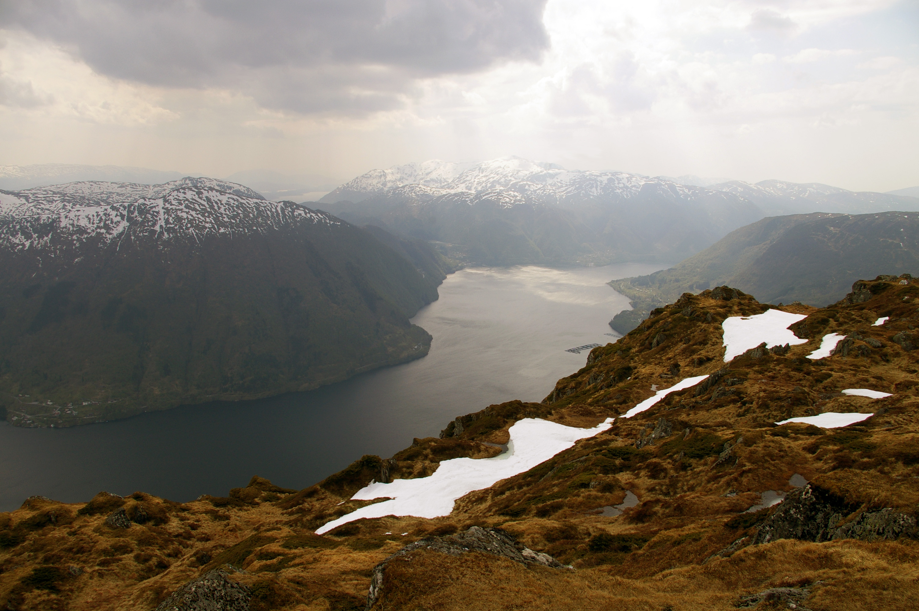 Sørfjorden, Osterøy, Hordaland, Norway seen from the top of Brøknipa.